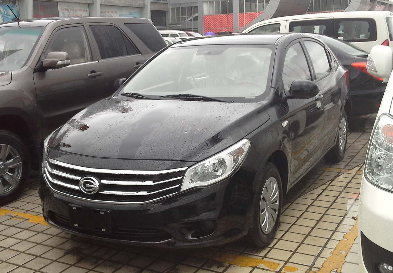 Gonow Emei photographed in Shanghai, China.